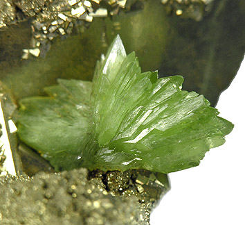 Ludlamite Locality: Huanuni mine, Huanuni, Dalence Province, Oruro Department, Bolivia (Locality at ) Size: 6.4 x 4.6 x 2.8 cm. A good representative specimen of this rare iron phosphate consisting of a wonderful, sharp, lustrous, gemmy, deep green, layered crystal group forming a "spray" of Ludlamite on Pyrite matrix. The Ludlamite crystal group measures 1.4 cm across. There are only about 5 localities in the world that produce fine crystallized Ludlamite specimens, and all of them, except for Huanuni and now defunct. Please note: There have been no more of these specimens found in the last 6 years from this locality, and it is a possibility there will never be any more.